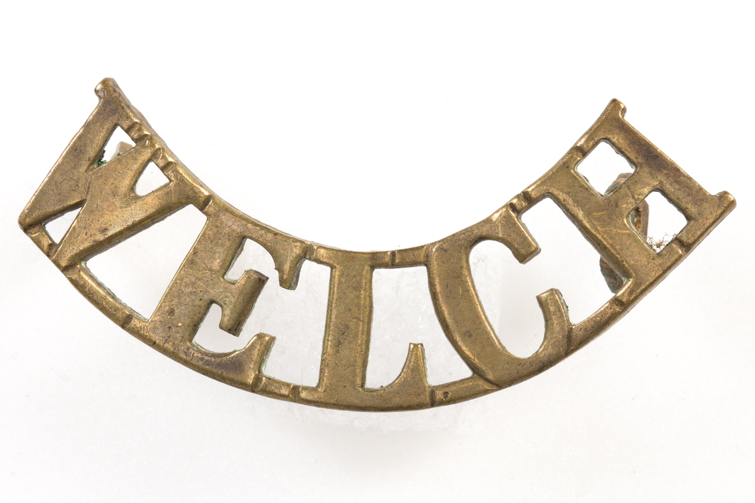 Regimental shoulder title badge. The Welsh Regiment (or "The Welch", an archaic spelling of "Welsh") was an infantry regiment of the line of the British Army in existence from 1881 until 1969. The regiment was created in 1881 under the Childers Reforms by the amalgamation of the 41st (Welch) Regiment of Foot and 69th (South Lincolnshire) Regiment of Foot to form the Welsh Regiment, which it was known until 1920 when it was renamed the Welch Regiment.